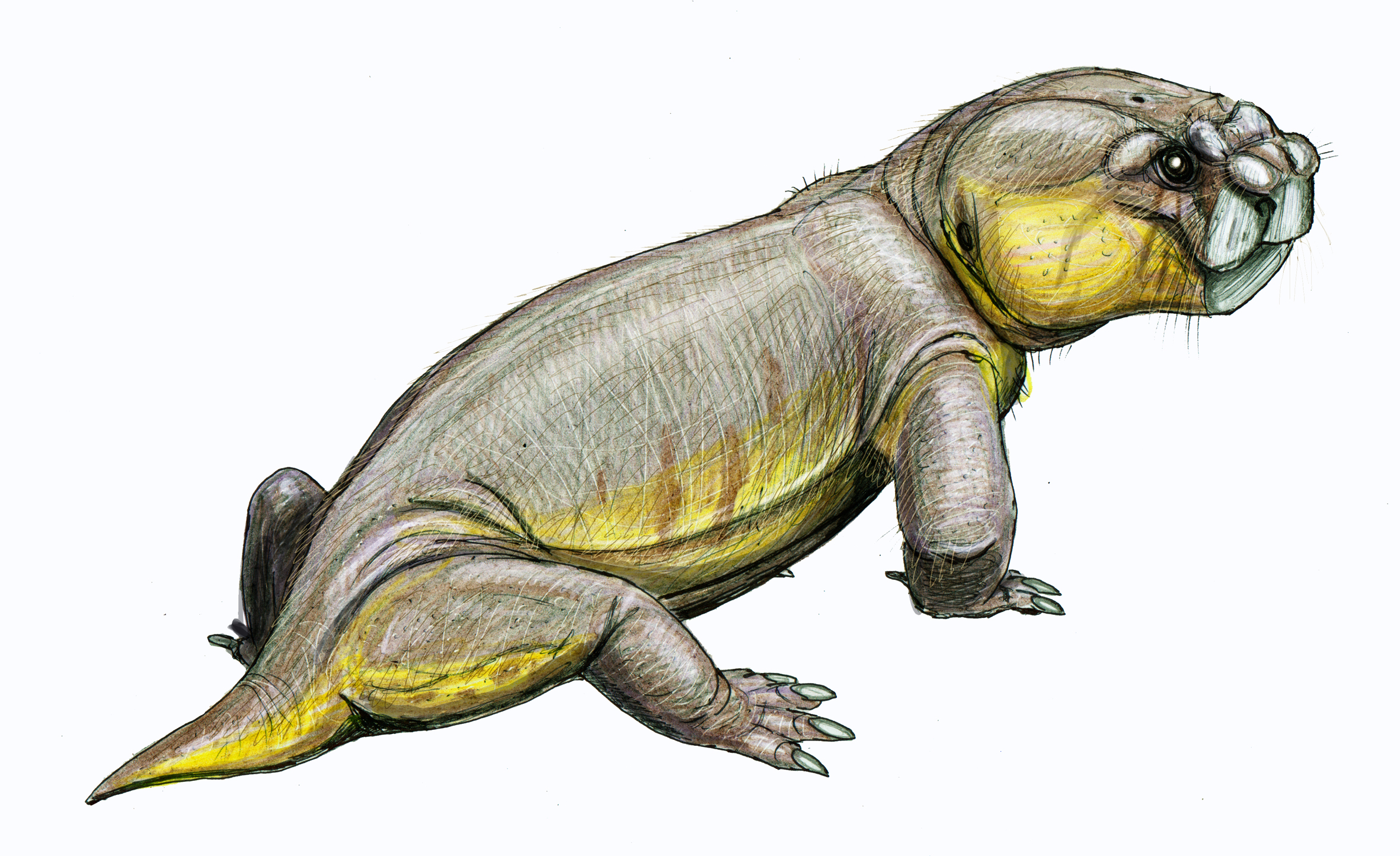 Pelanomodon from Late Permian of South Africa